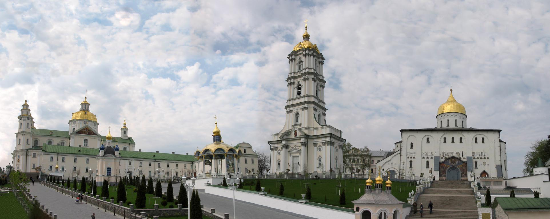 View of the Pochayiv Lavra.